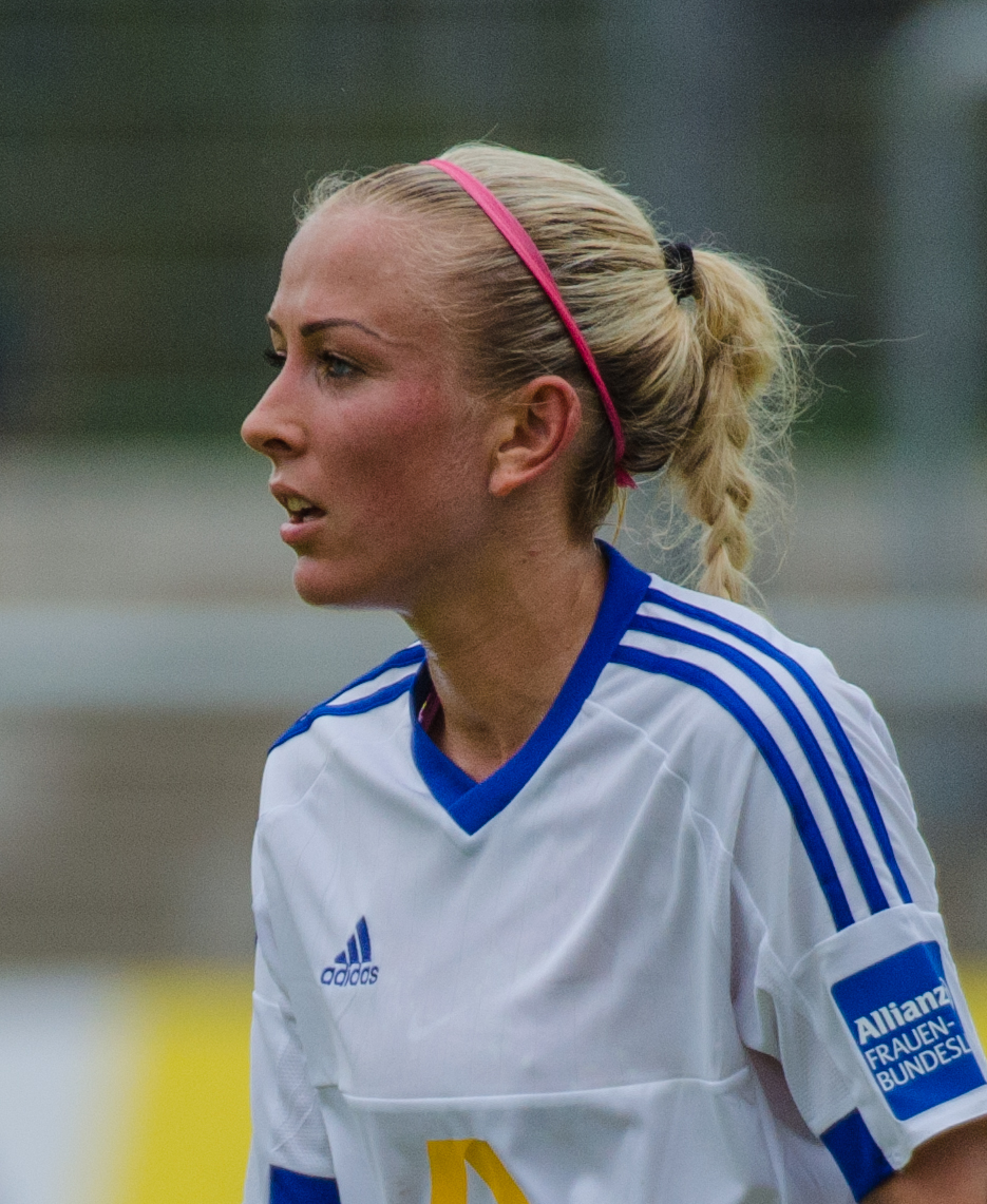 Match of the German Women's Football Bundesliga between 1.FFC Frankfurt and 1. FFC Turbine Potsdam, 2015-09-13